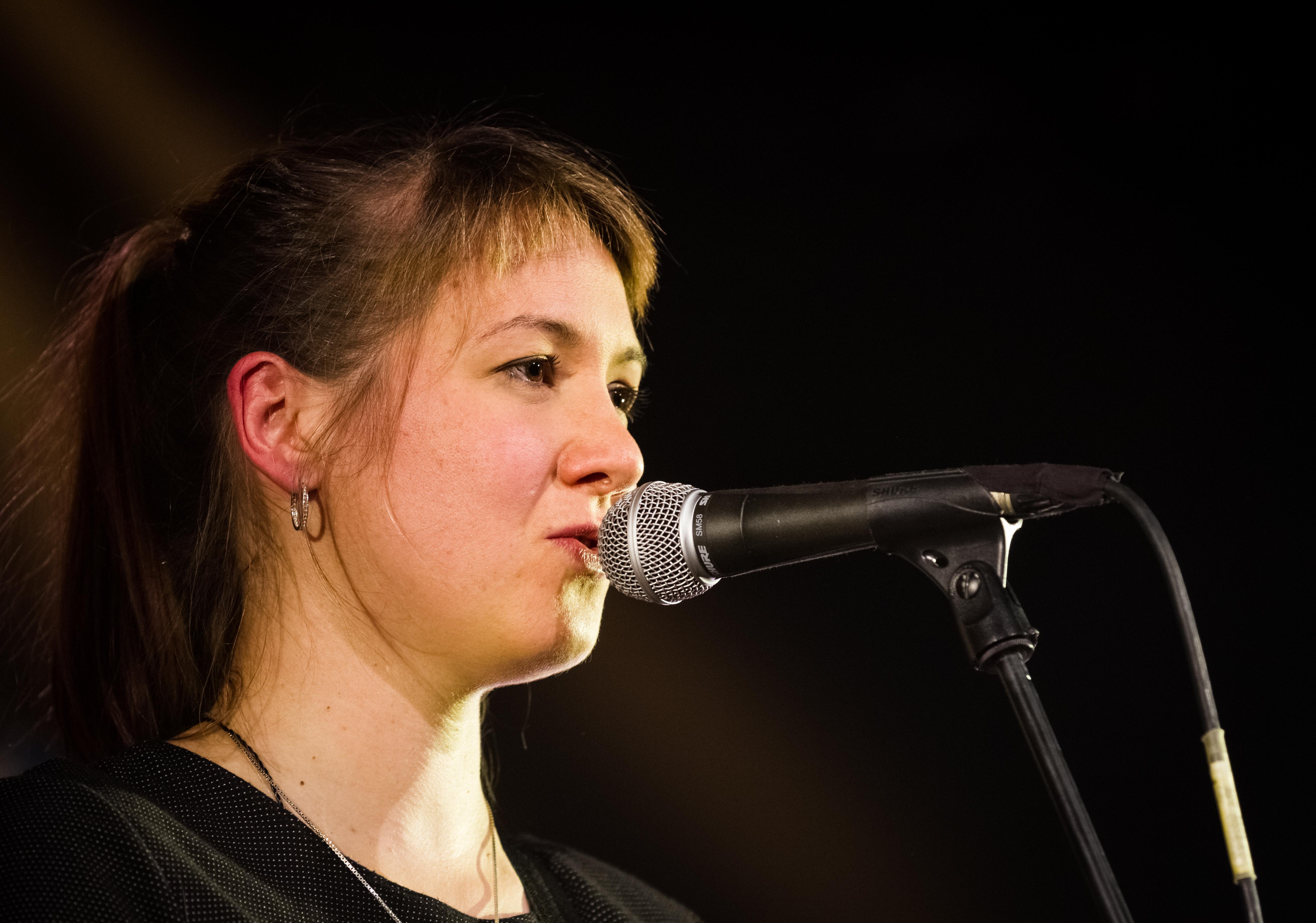 Sophie Hunger - Leverkusener Jazztage 2015